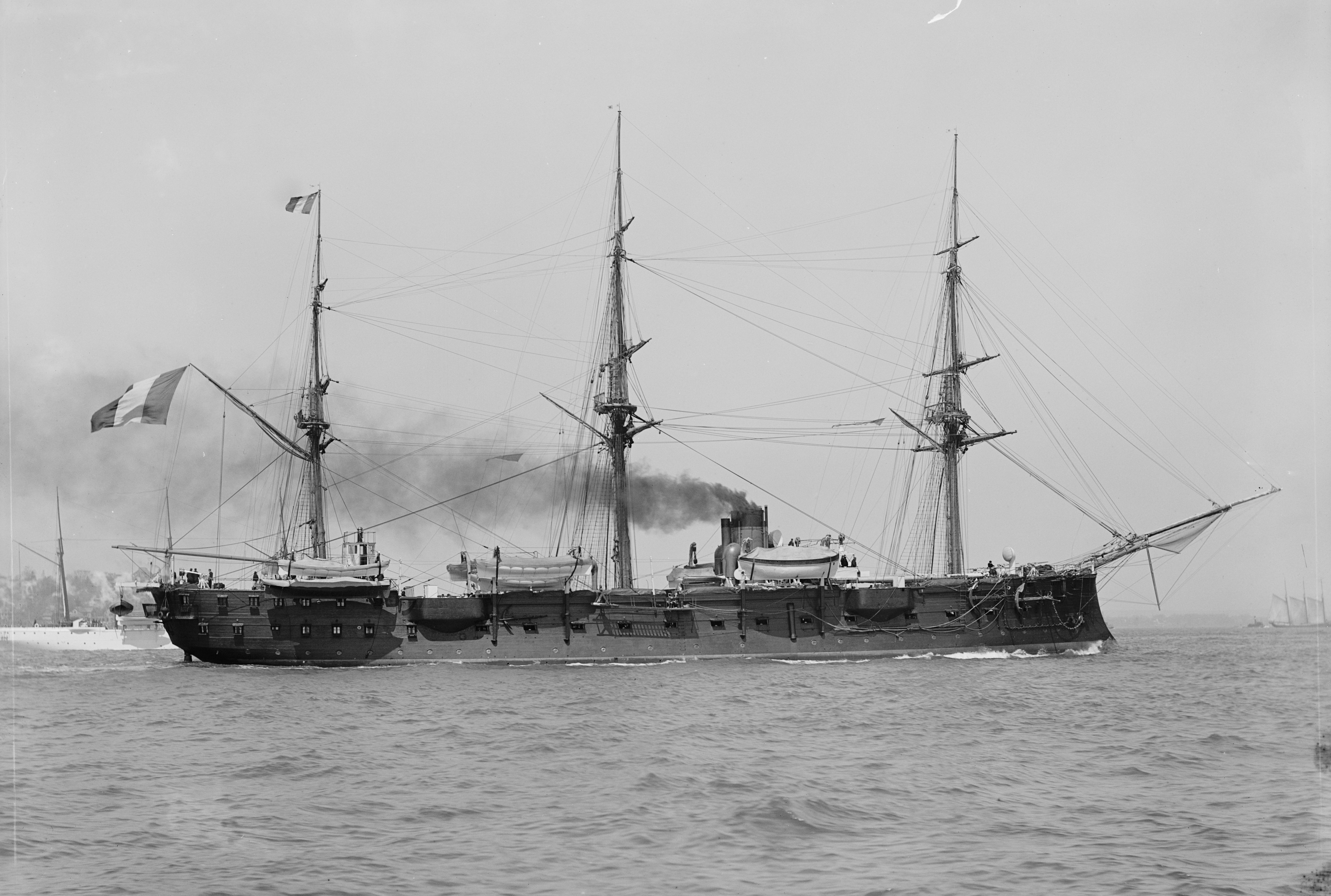 French cruiser Aréthuse